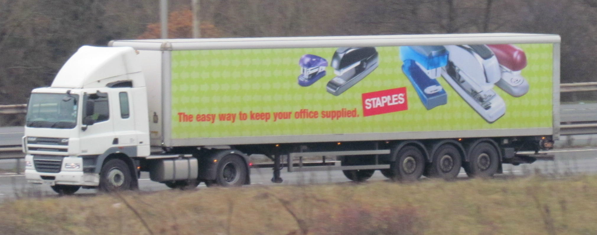 Staples